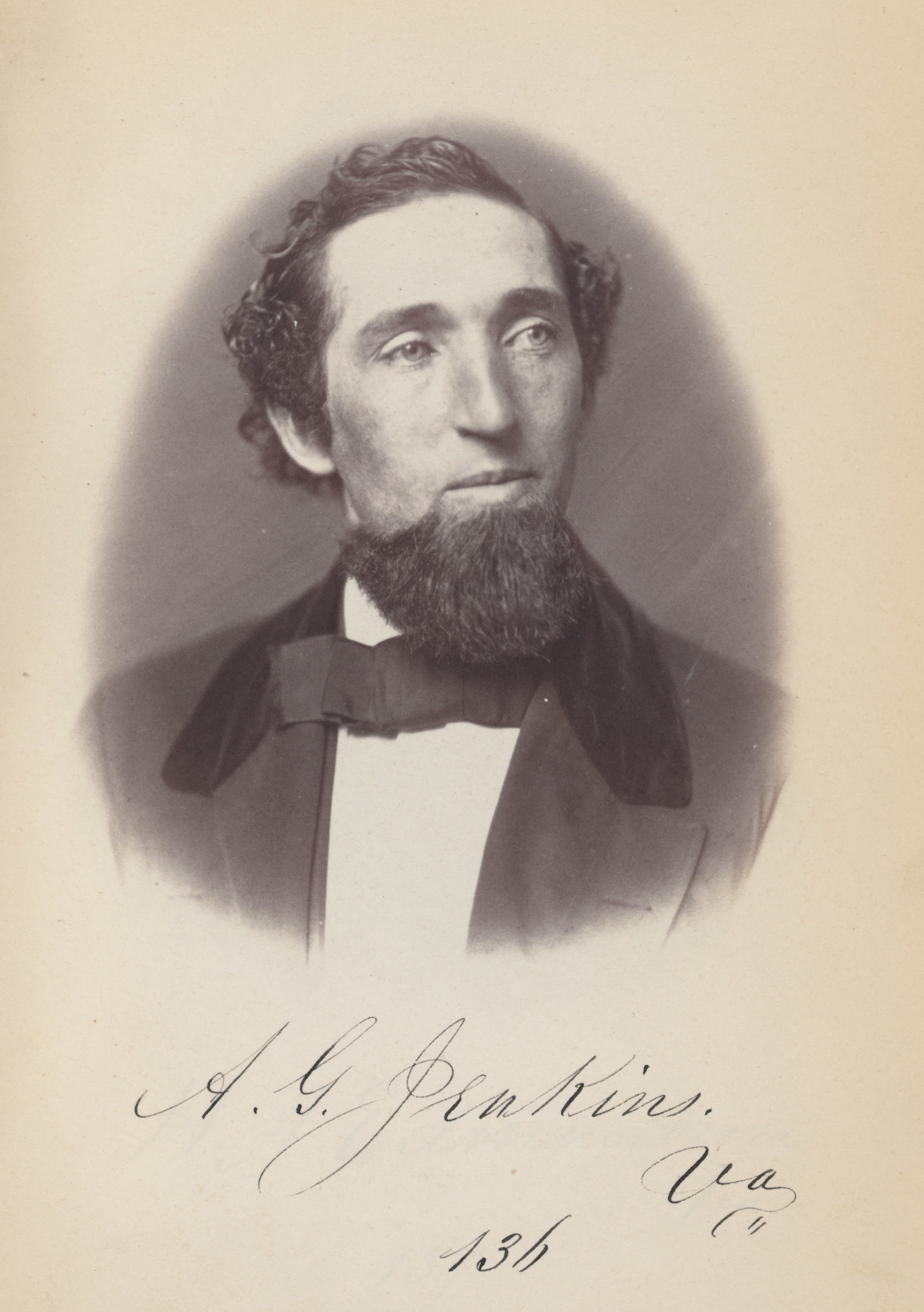 Title: Albert G. Jenkins, Representative from Virginia, Thirty-fifth Congress, half-length portrait Abstract/medium: 1 photographic print : salted paper ; 19.7 x 14.3 cm.